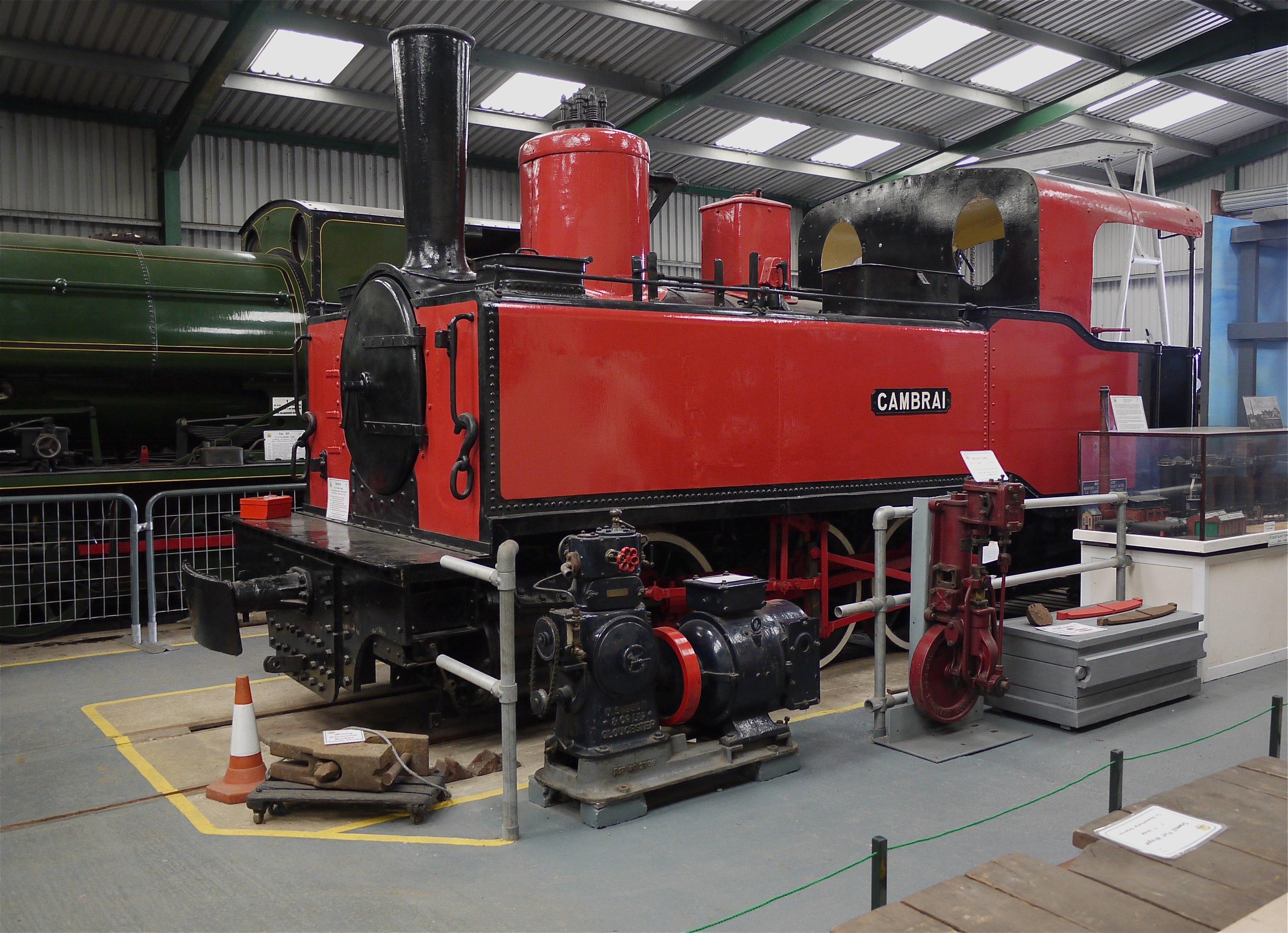 Corpet 493 of 1888 at Irchester Narrow Gauge Railway Trust